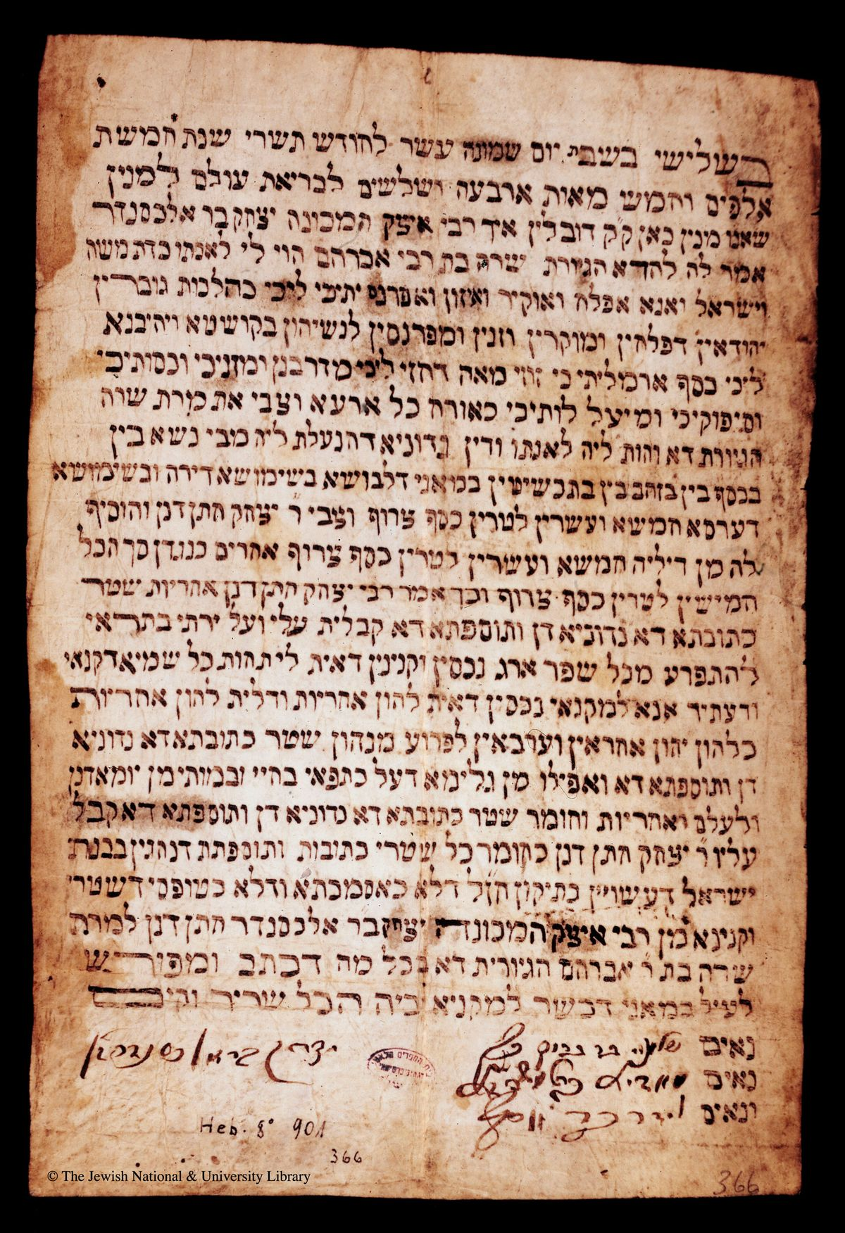 Ketubah from The Ketubot Collection of the National Library of Israel